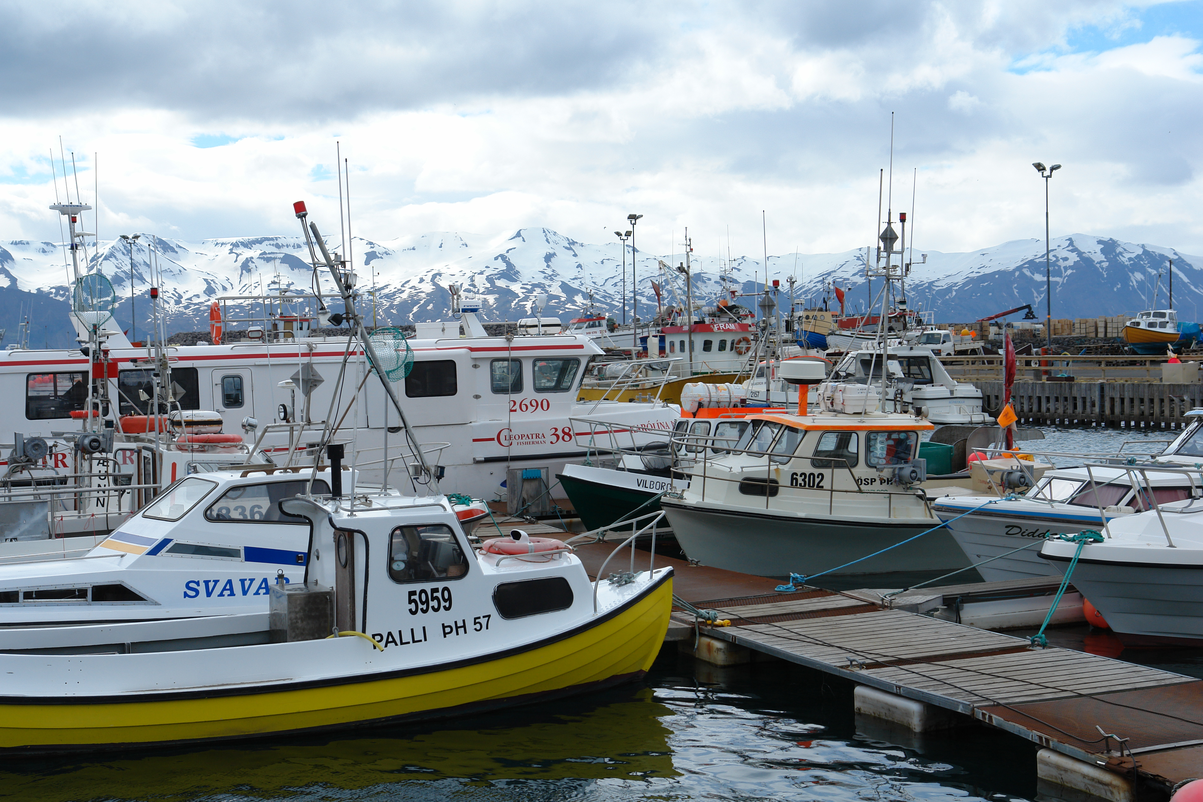 Húsavík harbor, Iceland. Photo made in June 2006 using a Sony Cybershot DSC-R1.